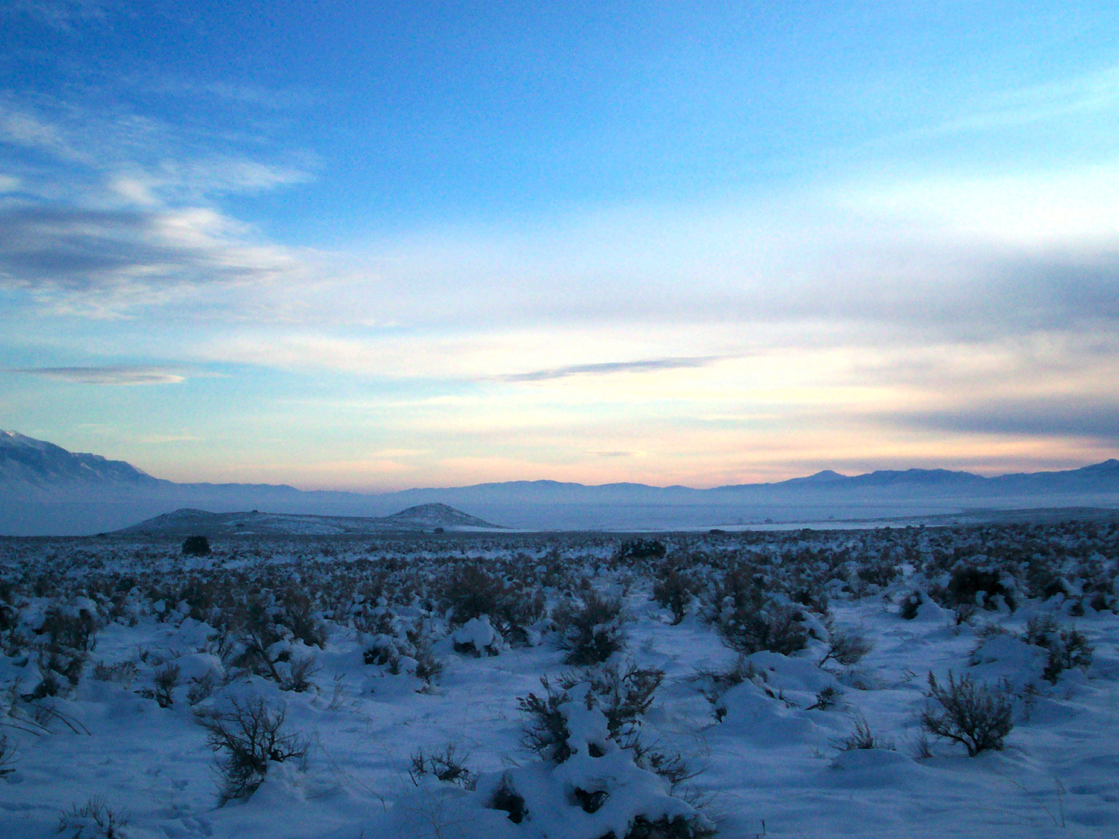 Western Utah County, Utah winter scene in Great Basin by David Jolley